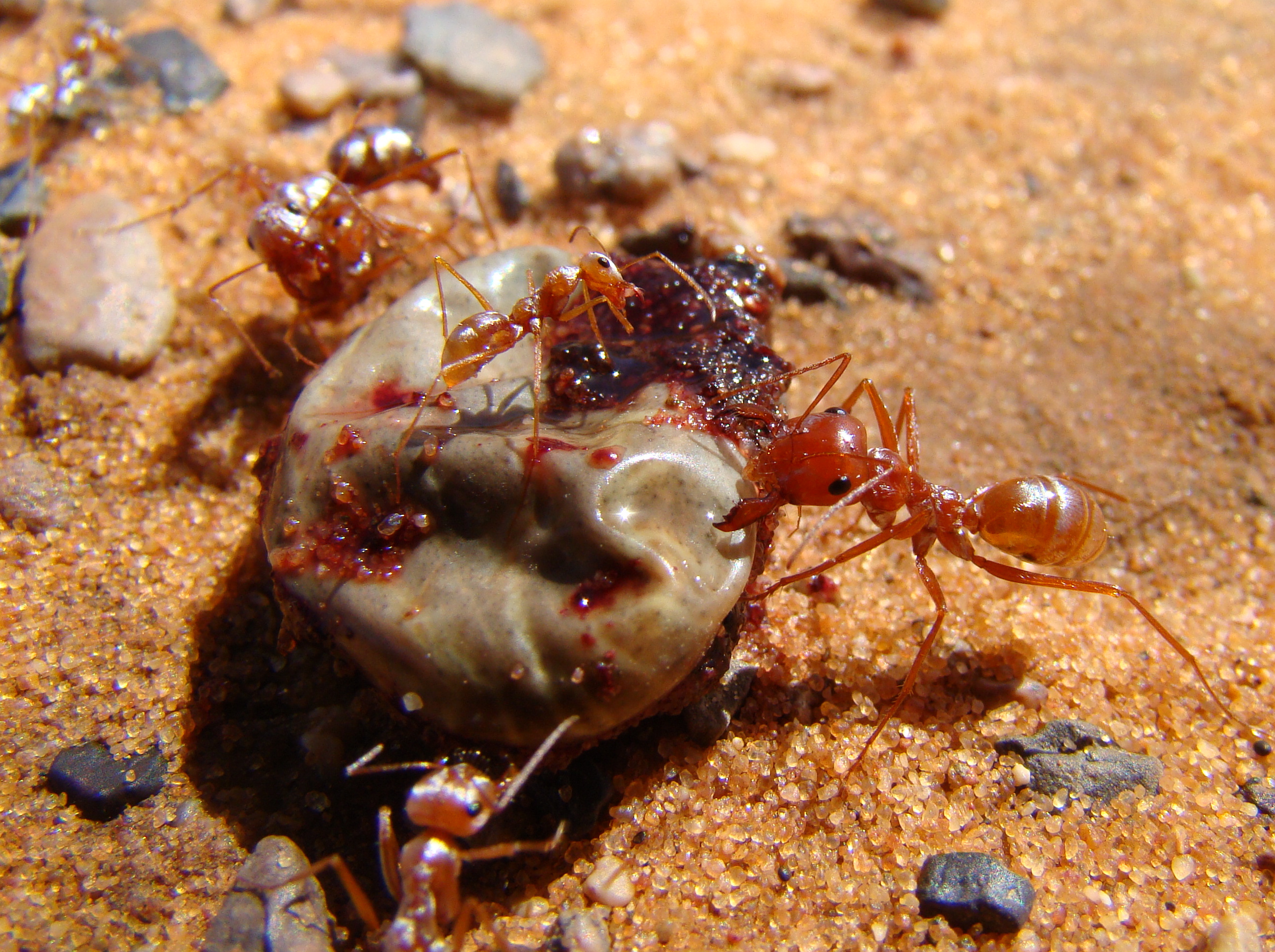 A group of Saharan silver ants (Cataglyphis bombycina) devouring a camel tick Hyalomma dromedarii.